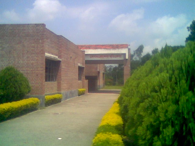 Rokeya Memorial Centre in Pairabondh, Rangpur. Image taken with Nokia 6020.